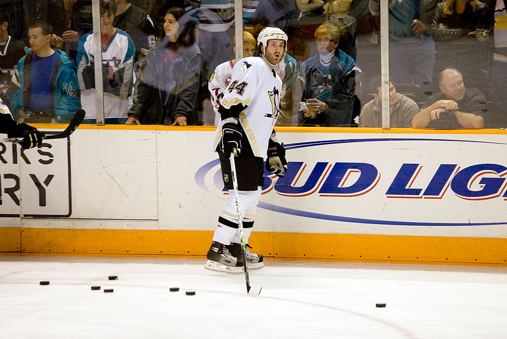 Brooks Orpik,Ice hockey player from the United States, Pittsburgh Penguins vs. San Jose Sharks